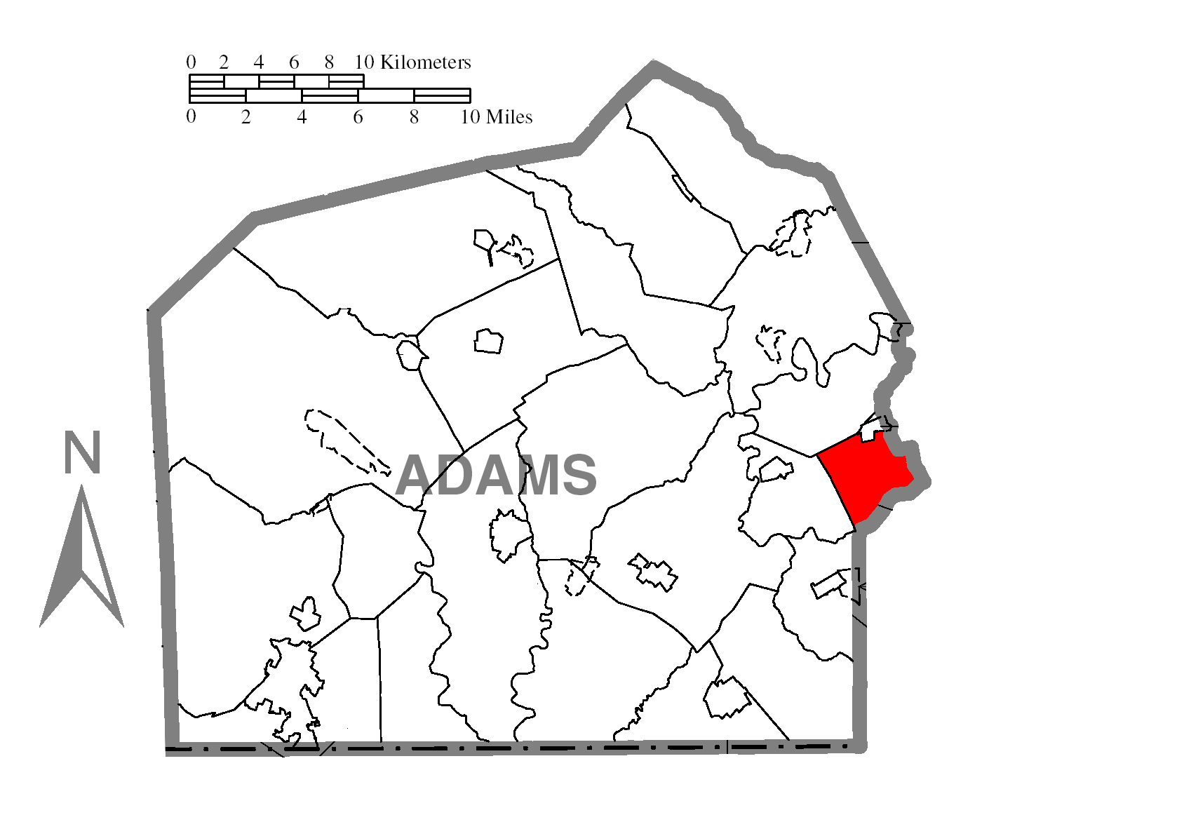 A map of Adams County showing Berwick Township, Pennsylvania (alternate) highlighted on the map.